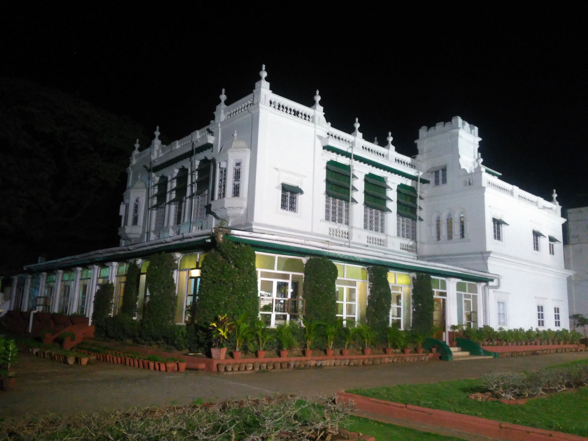 Chittaranjan Palace (Mysore) housing Green Hotel today.